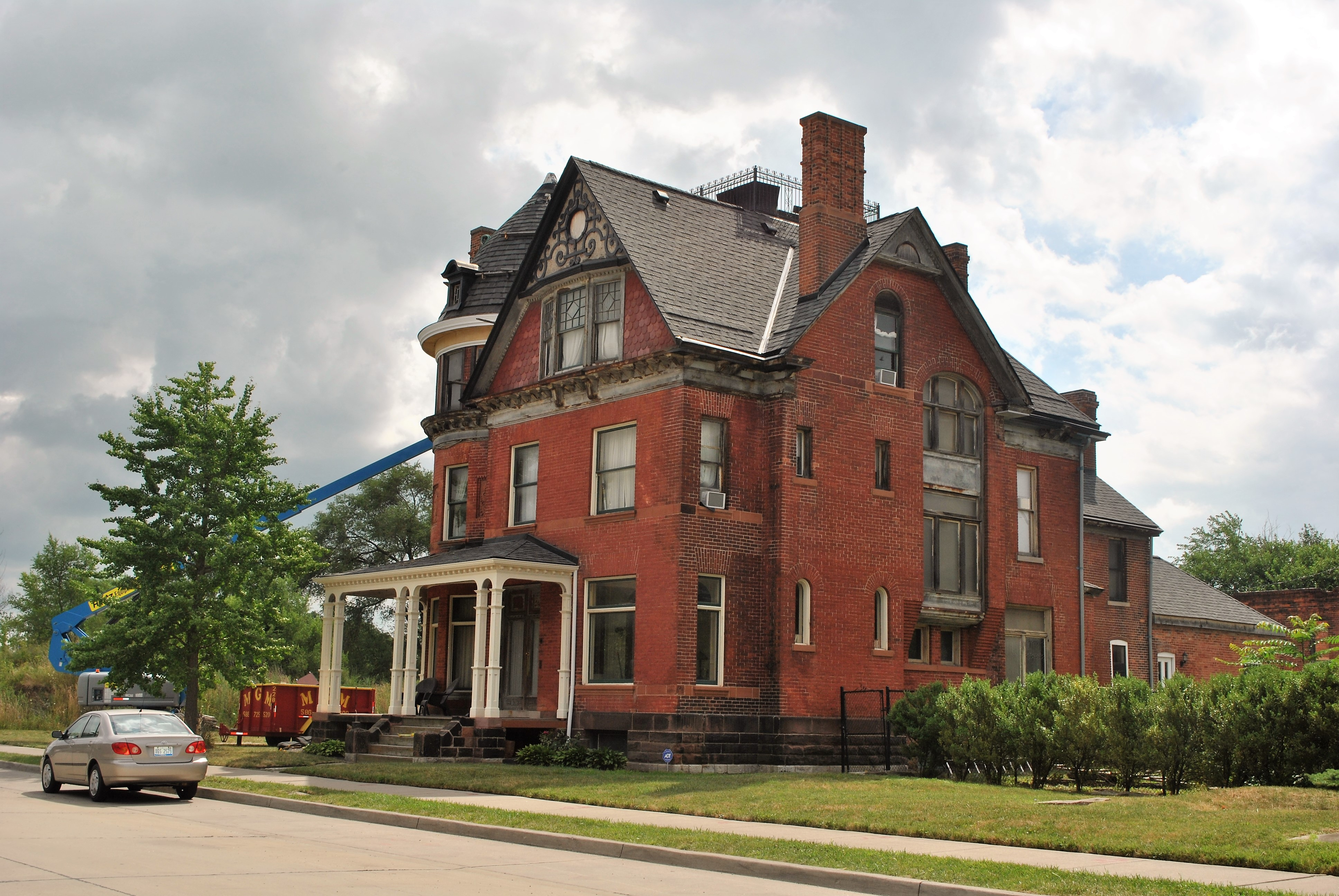 J.P. Donaldson House